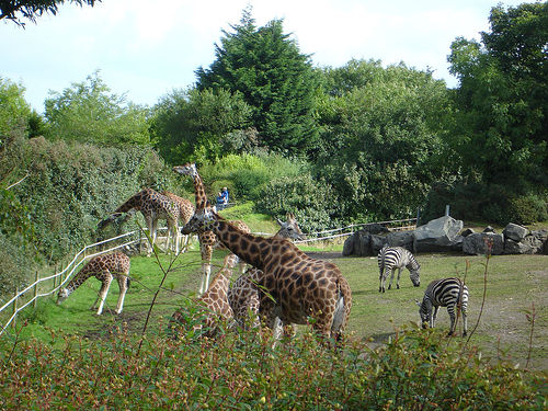 Credit Neil Rickards at Flickr